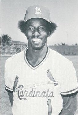 Image cropped from a baseball card of Garry Templeton from the 1980 St. Louis Cardinals Photocards set.